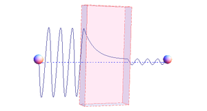 Schematic representation of quantum tunneling through a barrier. The energy of the tunneled particle is the same, only the quantum amplitude (and hence the probability of the process) is decreased. Plotting done with Wolfram's Mathematica 6.0